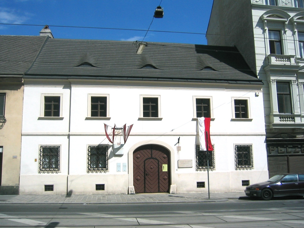 Vienna, Austria: Franz Schubert's birthplace, Nussdorfer Strasse 57